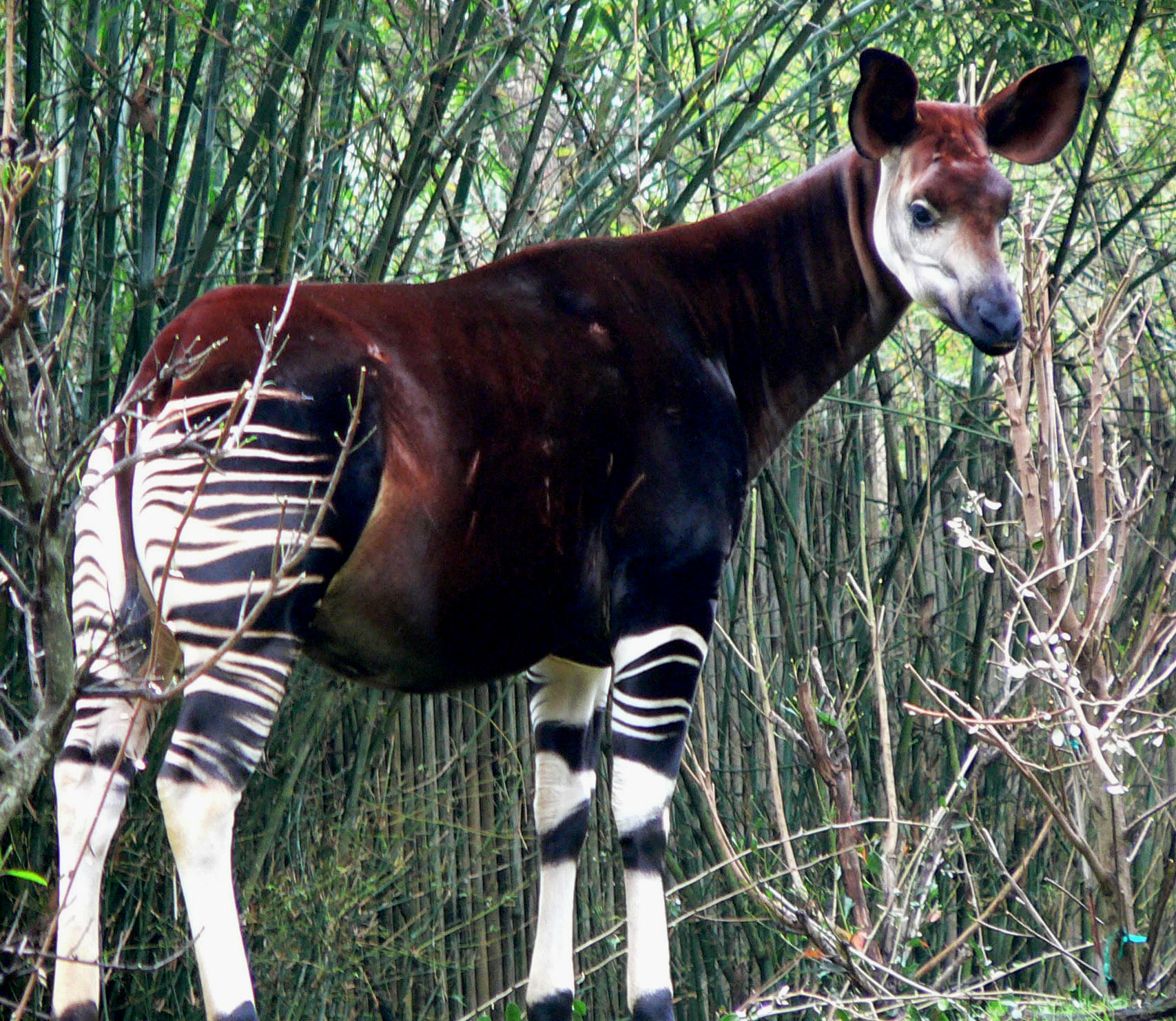 An Okapi. Taken at Disney's Animal Kingdom by Raul654 on January 16, 2005.